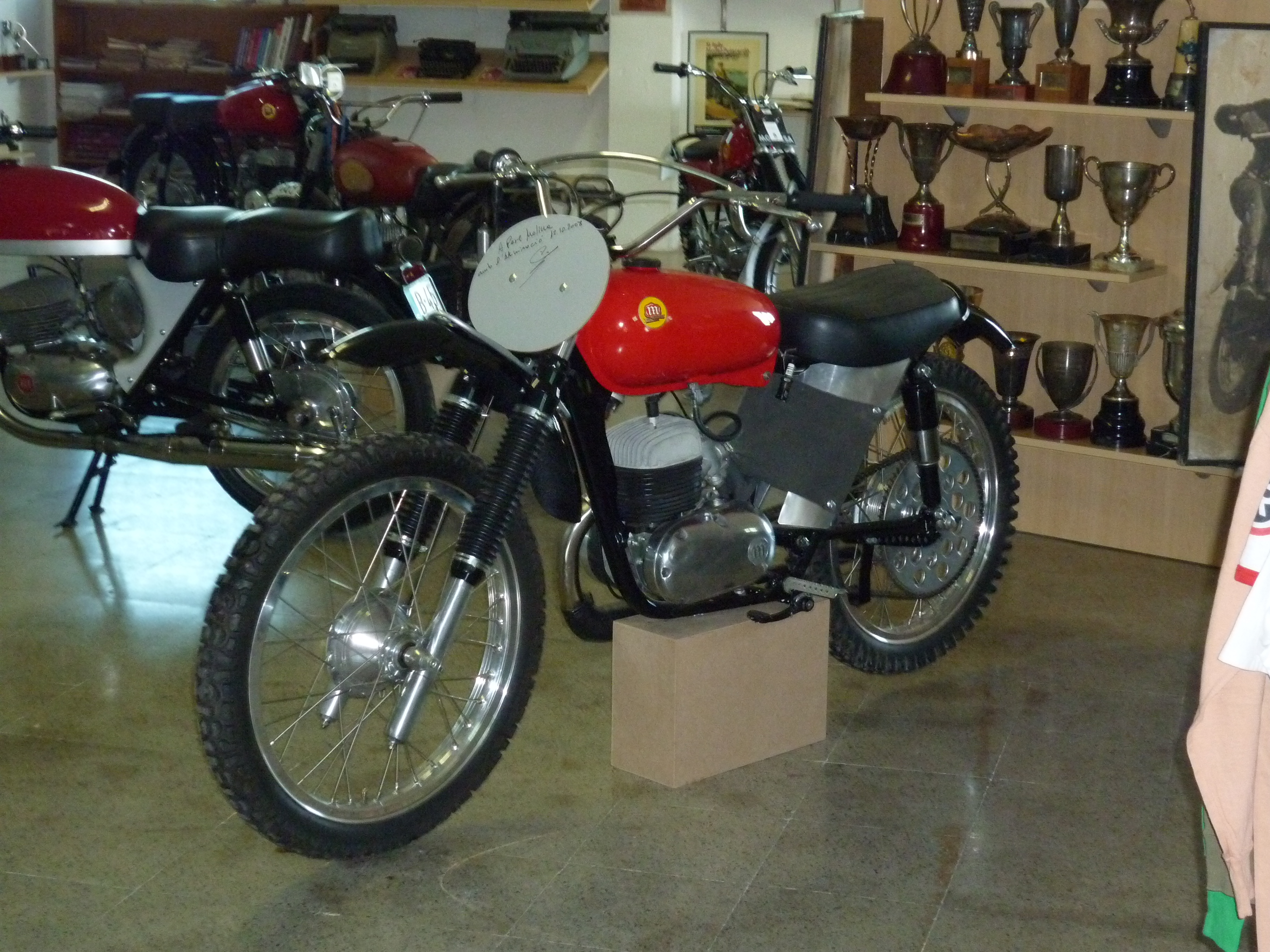 The first Montesa built specially for Motocross, based on a Brio 110 of the late 50. It was ridden by Pere Pi to 1960.Isern Motorcycle Museum, Mollet del Vallès (Catalonia).